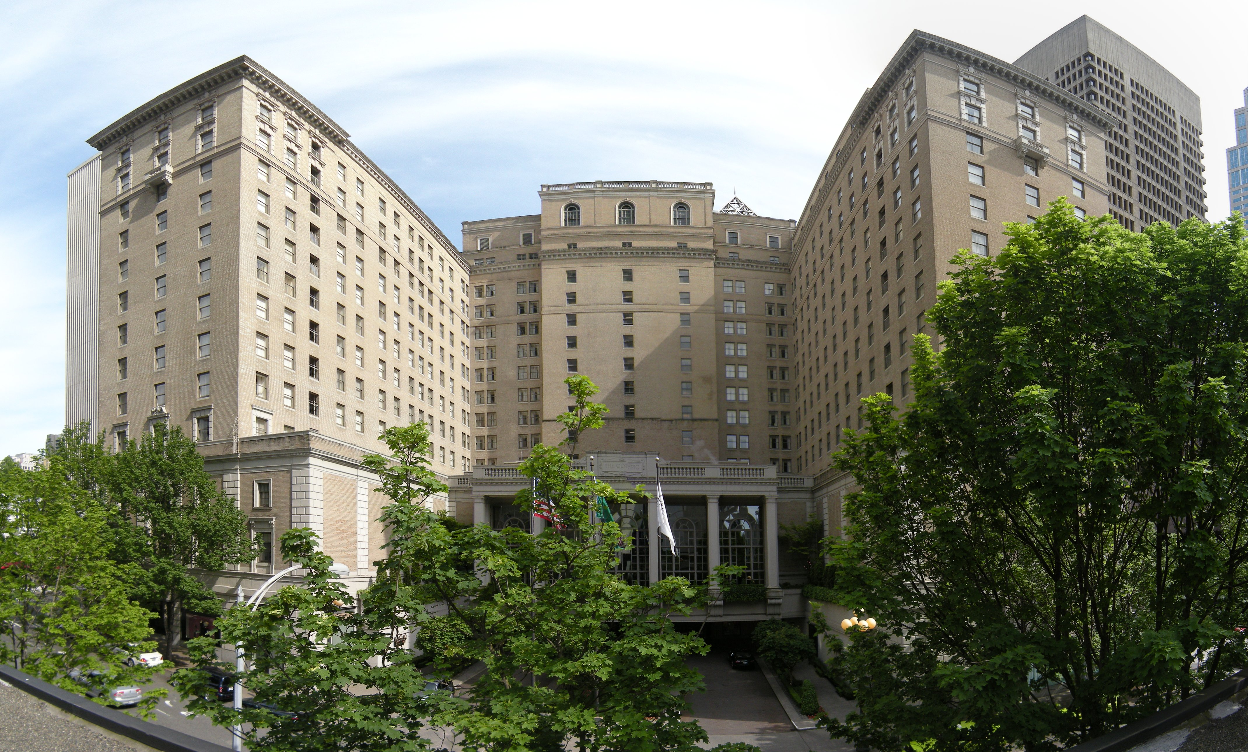 Panoramic view of the Olympic Hotel, Seattle, Washington, photographed from the roof of the Rainier Square building. This image was created with Hugin Created with Hugin, then the perspective somewhat transformed with GIMP.